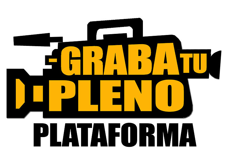 logo Graba tu Pleno